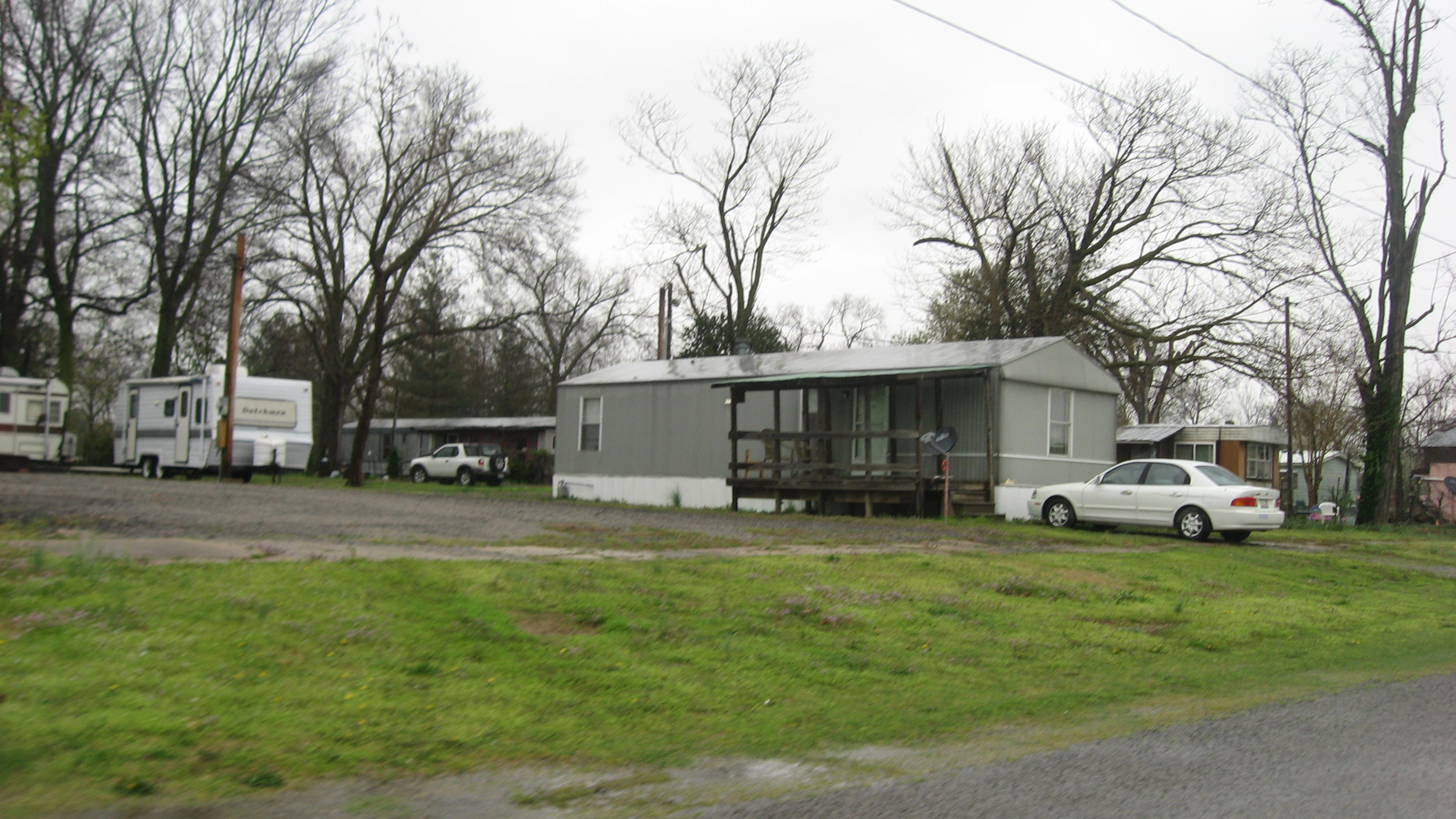 An empty lot and house trailers located along the western side of Main Street between Madison and Jefferson Streets in Old Shawneetown, Illinois, United States. This was until recently the site of the Robert and John McKee Peeples Houses, which were built in the early nineteenth century; they were listed on the National Register of Historic Places in 1983 and have not yet been removed.